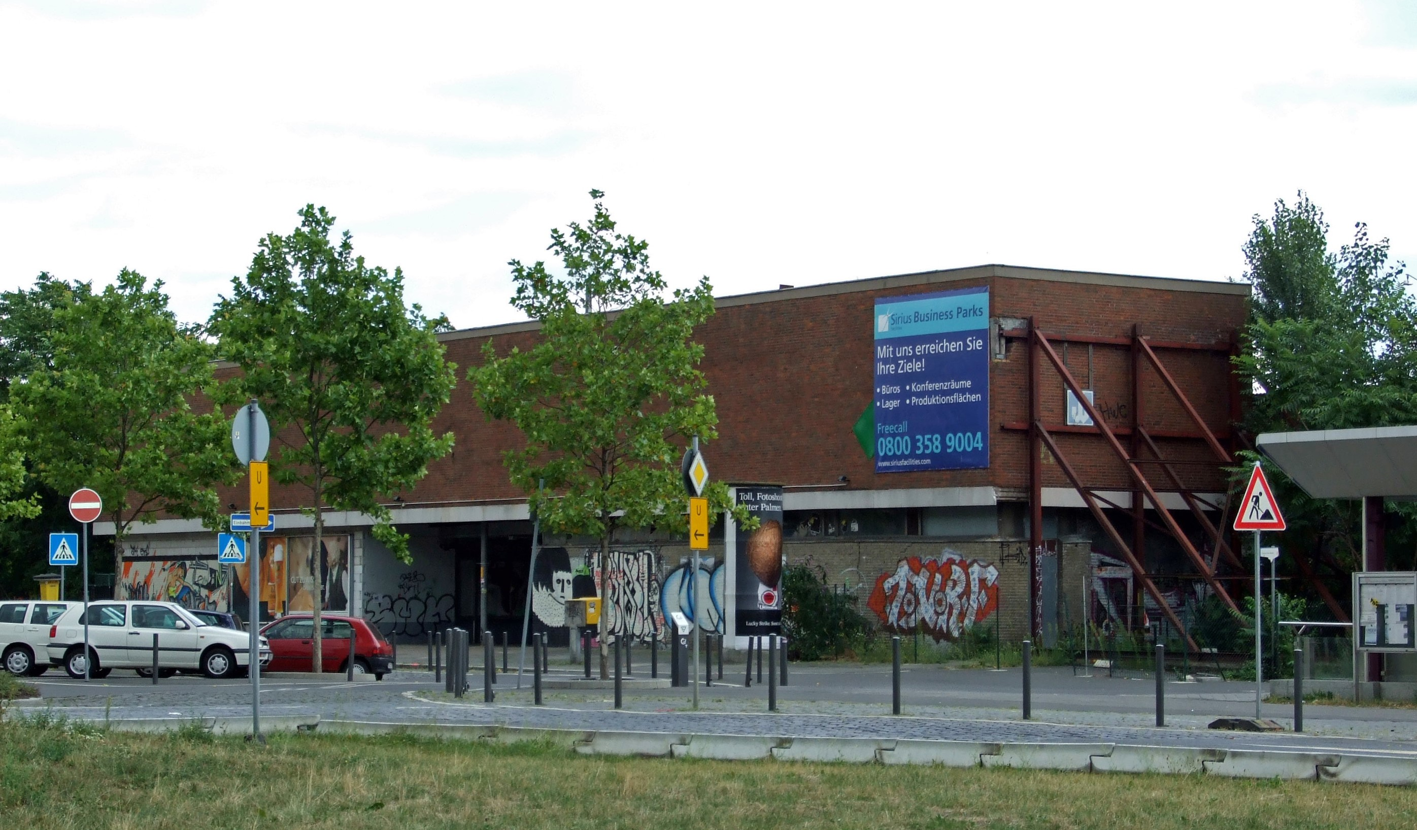 railway station Ostbahnhof, in Frankfurt am Main (Ostend)